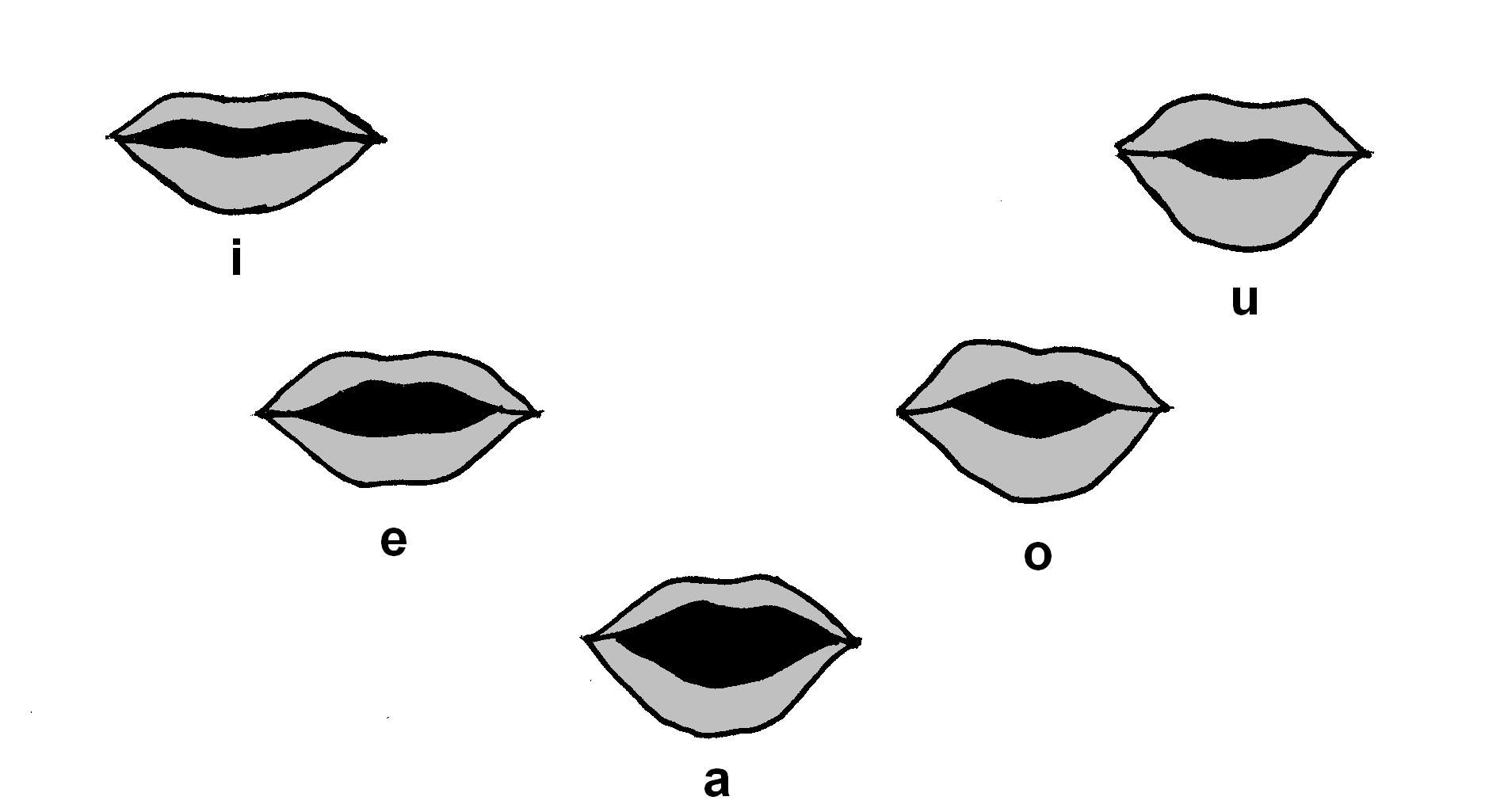 Lips in the articulation of the Czech vowels